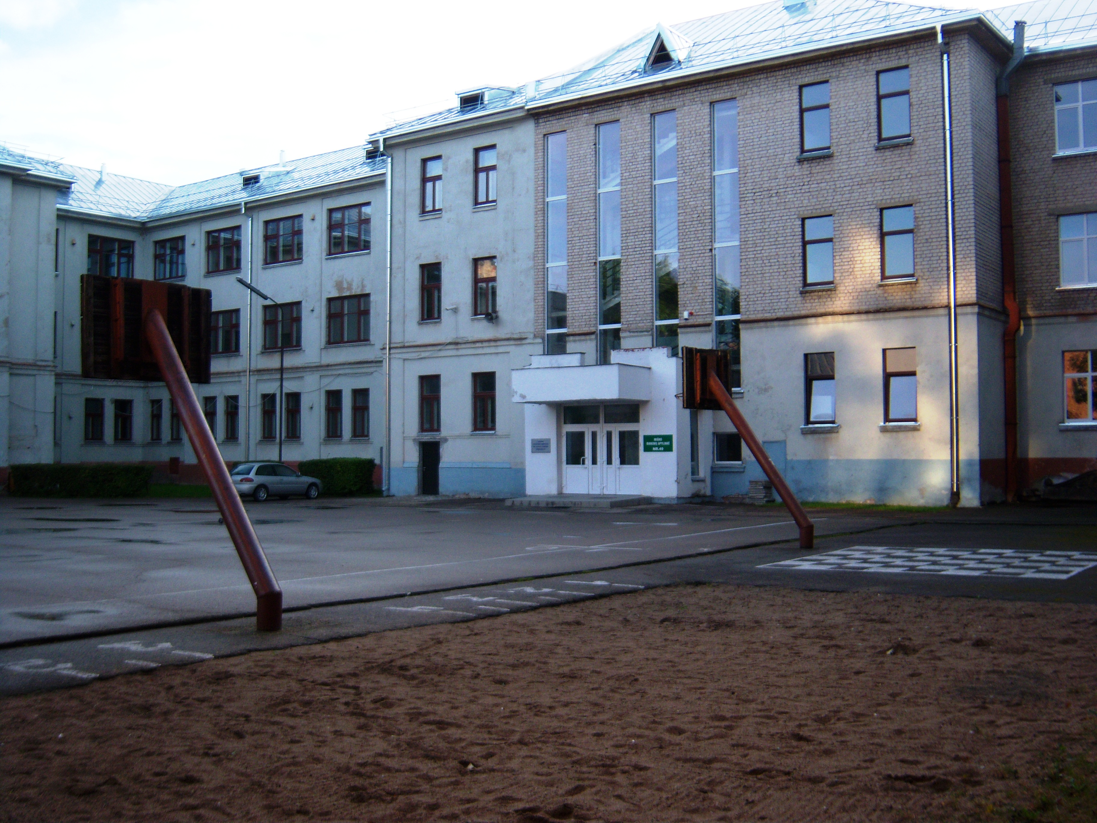 Steponas Darius and Stasys Girėnas Gymnasium, Kaunas, Lithuania